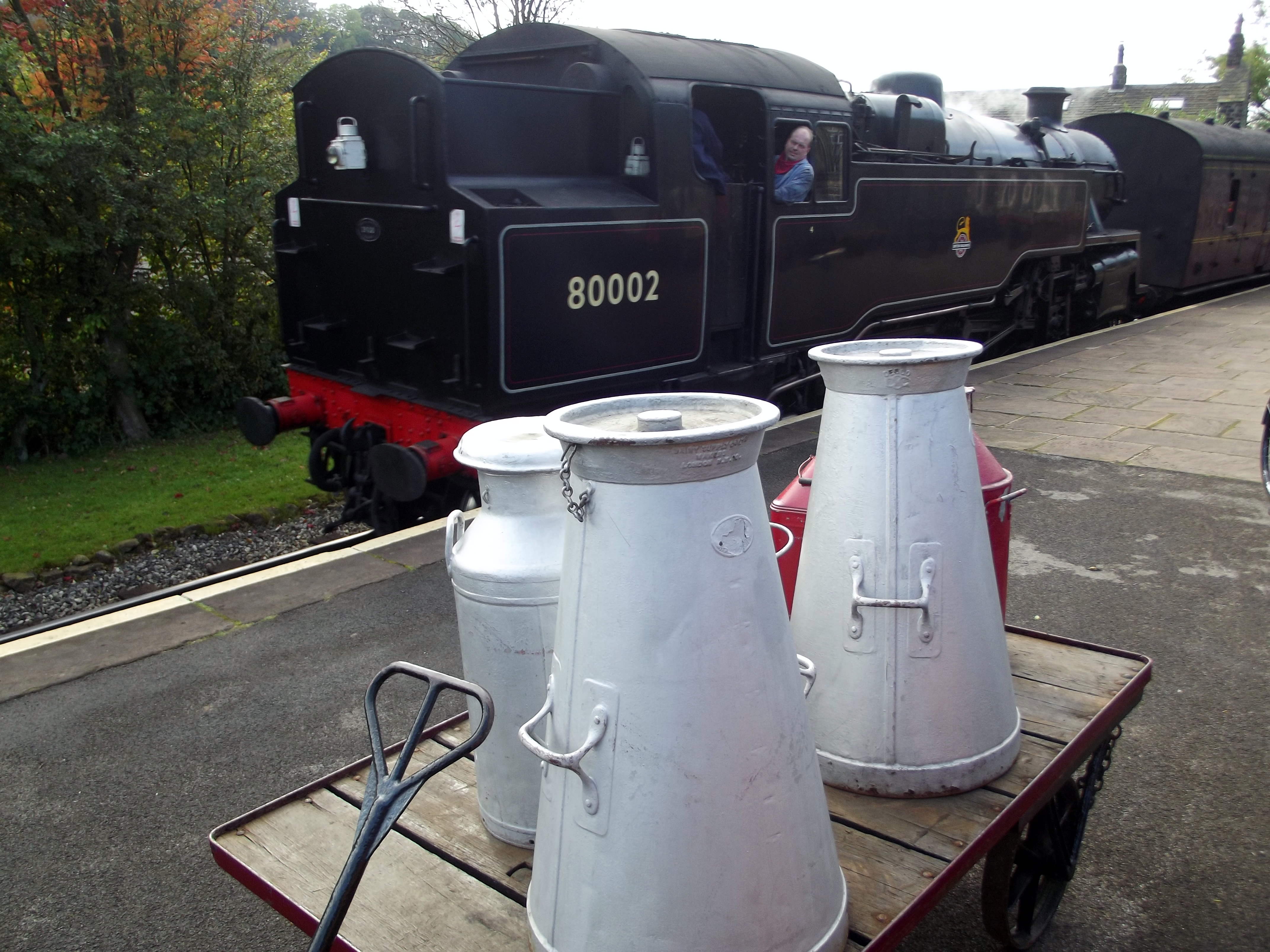 and Milk containers on a luggage trolley